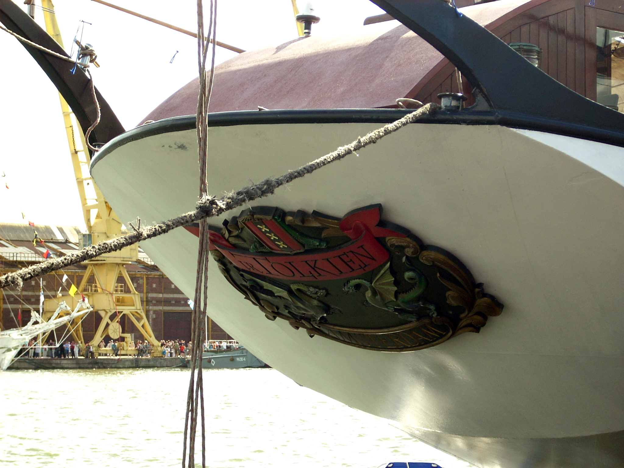 The J. R. Tolkien taffrail. The J. R. Tolkien is an elegant gaff-topsail schooner of 42 metres. J.R. Tolkien often sails in the Baltic. With so much luxury, it's hard to believe that this ship was launched originally as the tug Dierkow in 1964. The tug was sold on and converted to her present use in 1994. Here it is Rouen Armada, 2008.